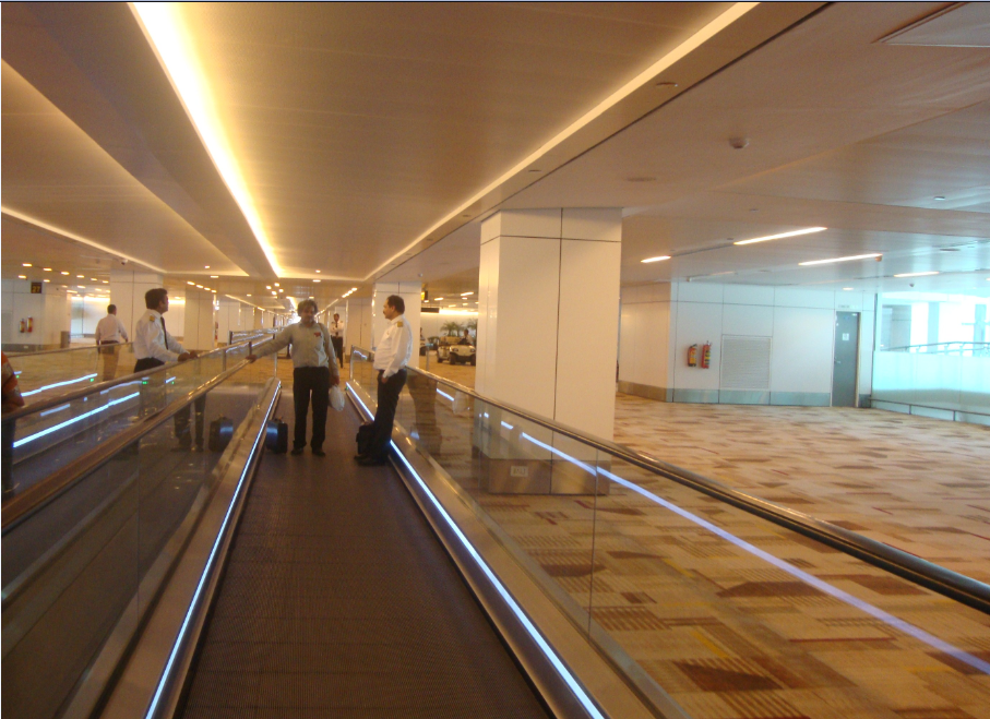 Travelators at Indira Gandhi International Airport, Delhi